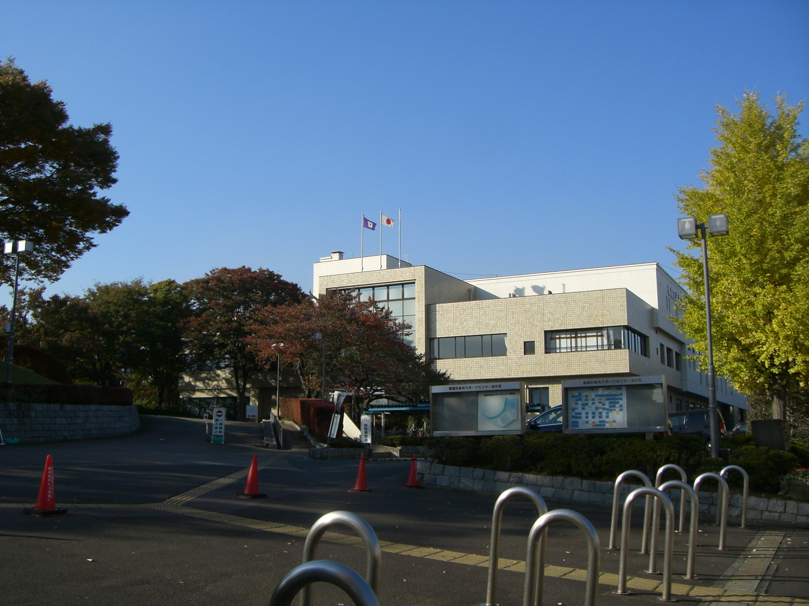 Katsushika City Sogo Sports Center